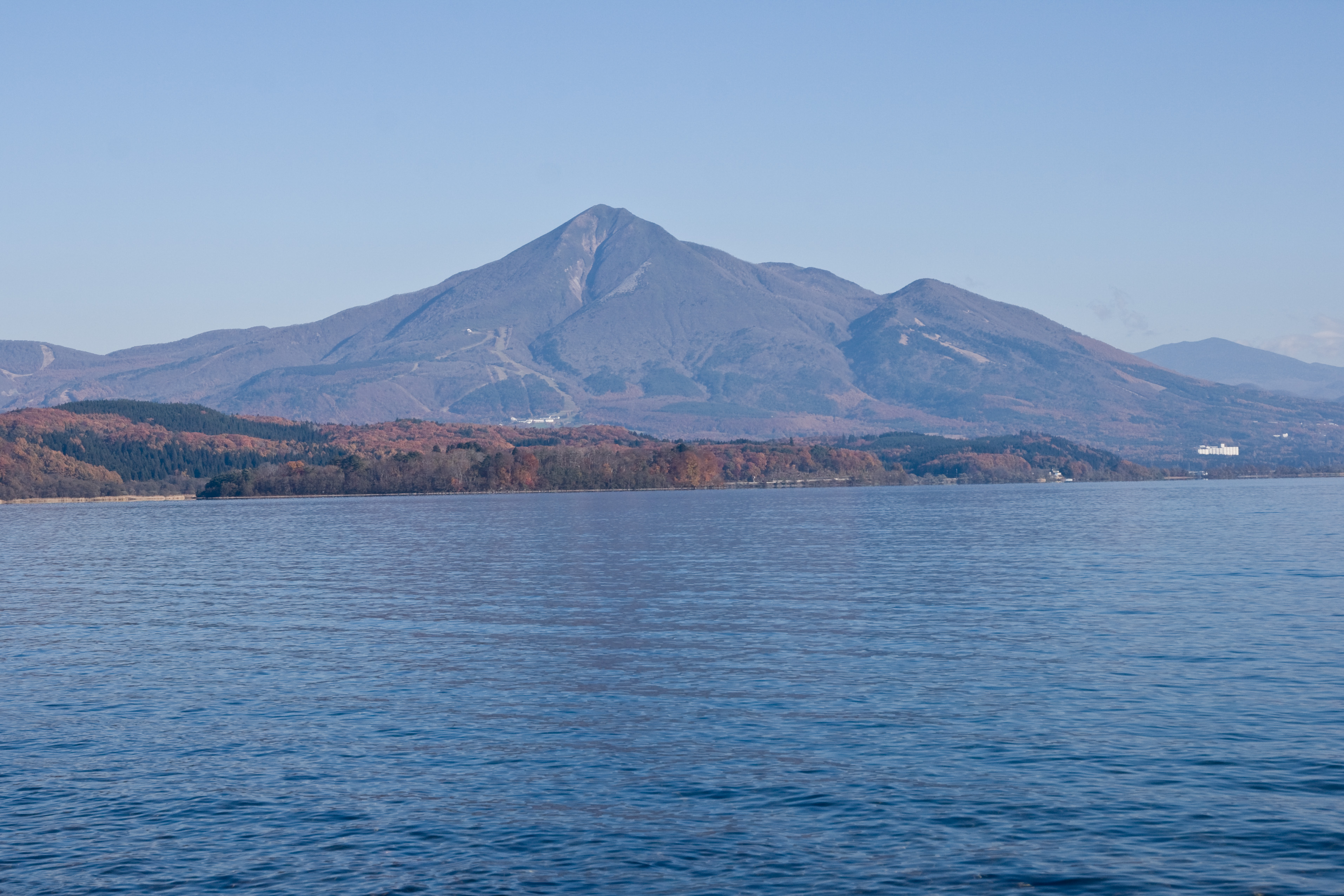 Mount Bandai as seen from Lake Inawashiro, Fukushima Pref., Japan